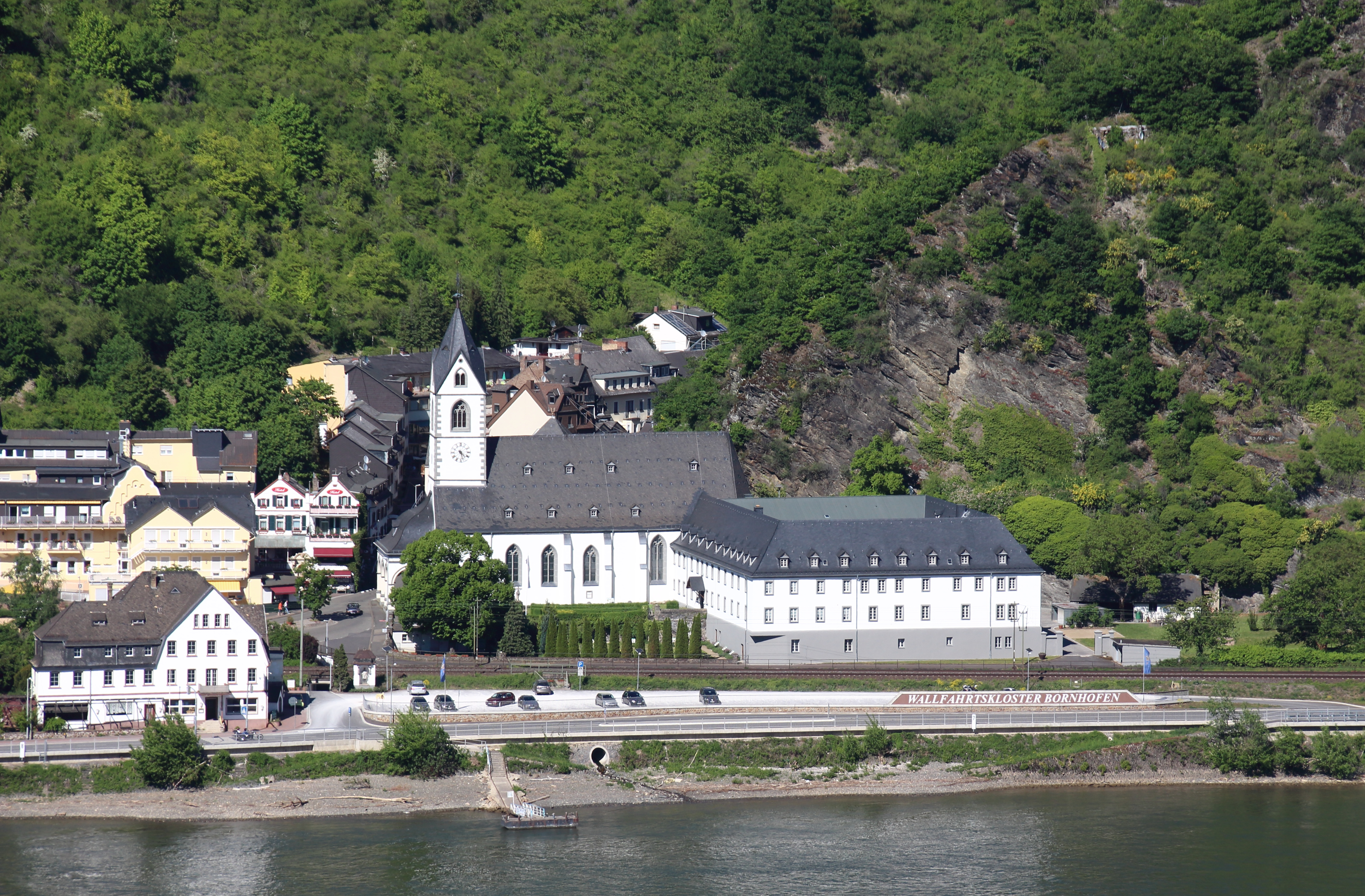 Pilgrimage monastery Bornhofen with monastery church. Kamp-Bornhofen, Rhineland-Palatinate, Germany